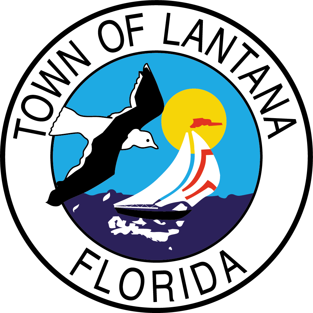 The official town sealof Lantana, Florida.